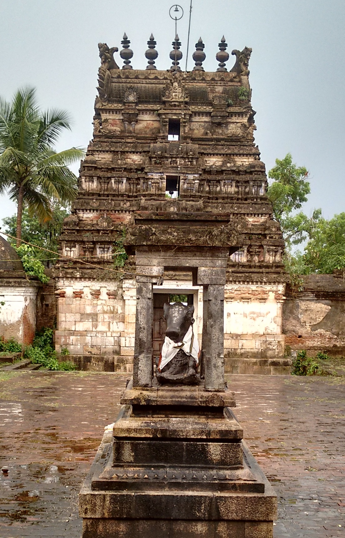 Tirunindriyur Mahalakshmeeswarar Temple திருநின்றியூர் மகாலட்சுமீசர் கோயில்